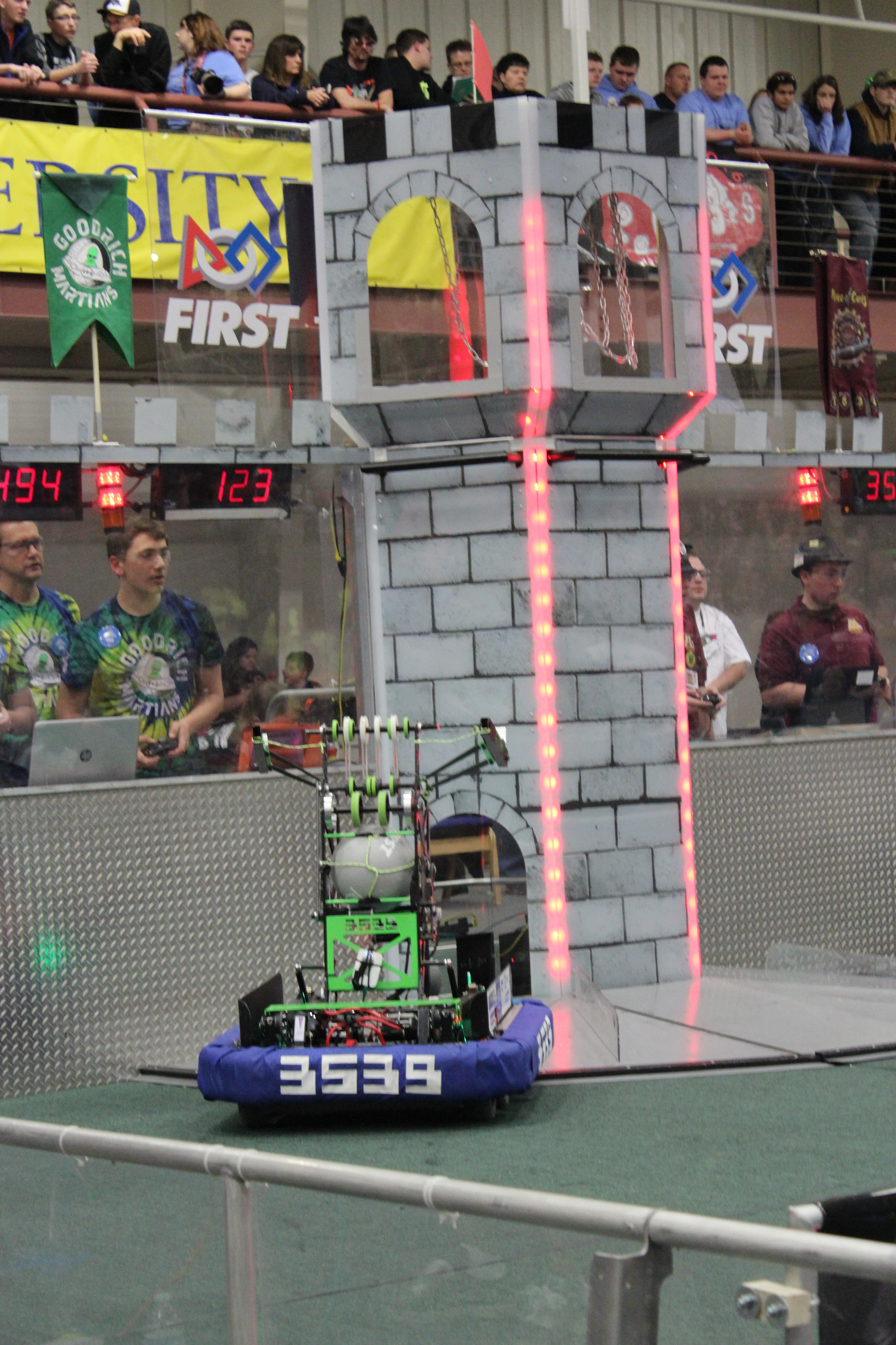 Byting Bulldogs at 2016 Kettering 2 District Competition